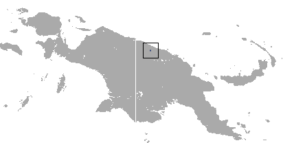 Northern Glider (Petaurus abidi) range